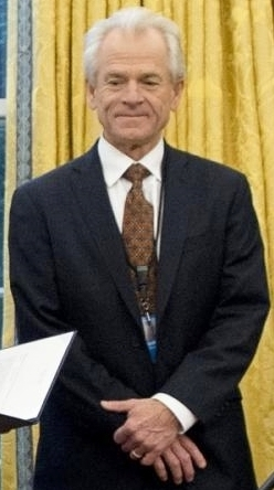 1st working after inauguration